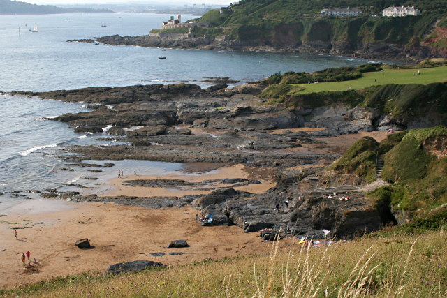 Crownhill Bay